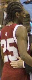 Kyle Weaver (then of the Washington State University basketball team) congratulates UCLA basketball coach Ben Howland after a game.